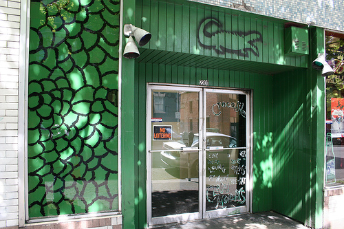 This is where Nirvana got their start.